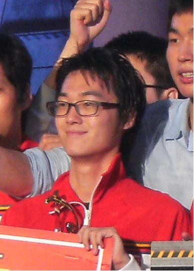 StarCraft II player Choi Seong-hun (nickname: Polt)